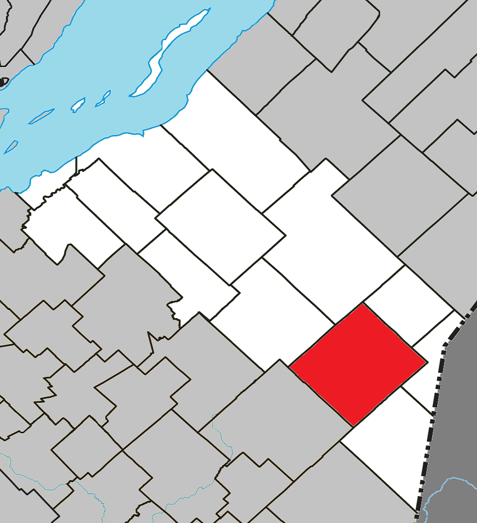 Location of Saint-Fabien-de-Panet, Quebec within Montmagny Regional County Municipality.